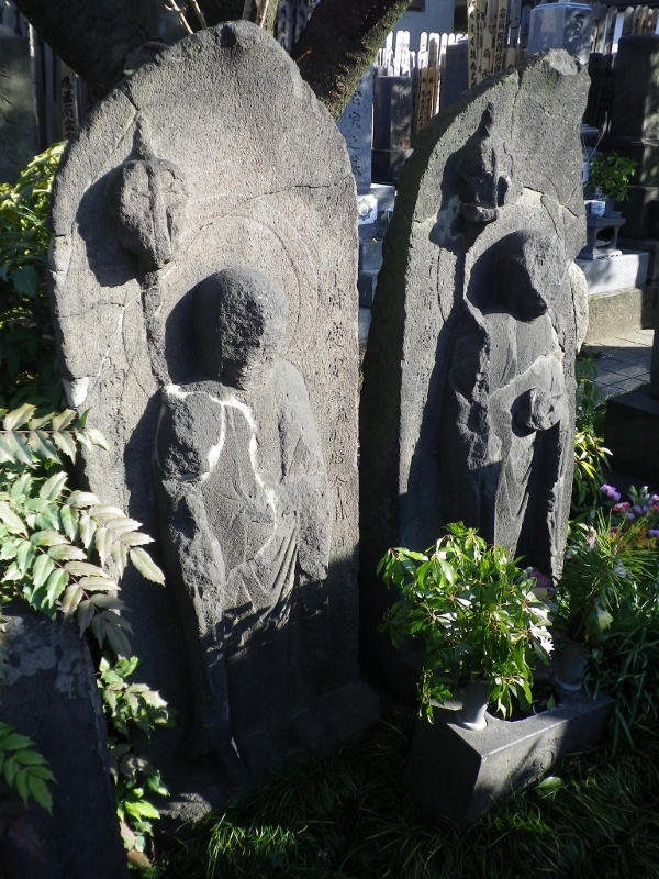 Tombs of Banzuiin Chōbee (left) and his wife at Genkū-ji temple in Taitō-ku, Tokyo.